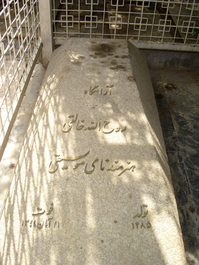 Khaleghi's tomb. Photo by Zereshk, with Sony 5.1 Mega Pixel camera.